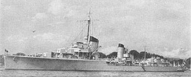 Destroyer Z1 Leberecht Maass, booklet for identification of ships, published by the Division of Naval Inteligence of the Navy Department of the United States.